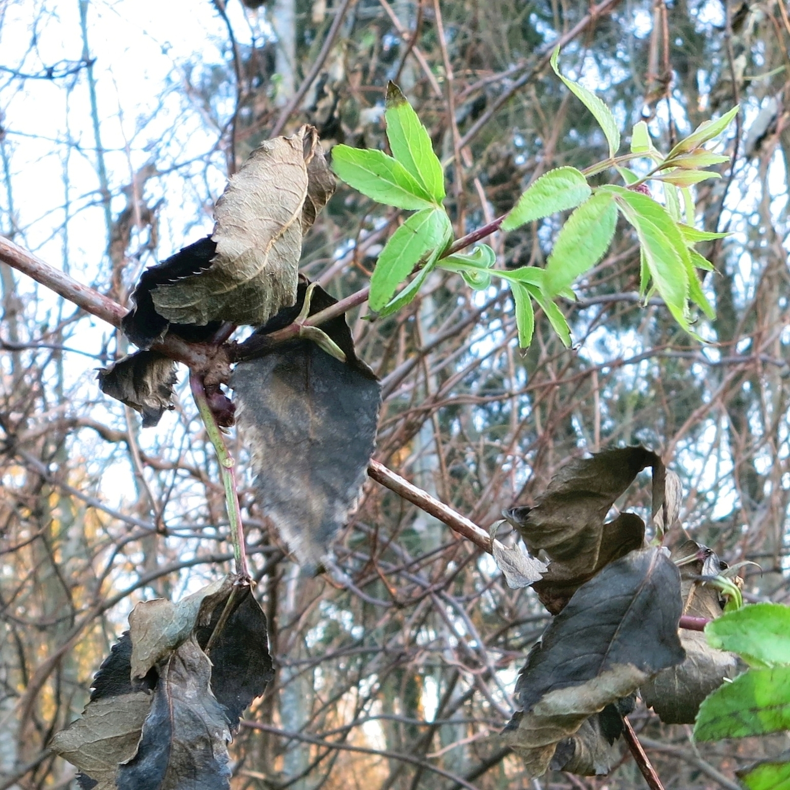 An example about different frost tolerance of different leaves of a shoot. At the end of October, old leaves of Sambucus racemosa are frostbitten, but the youngest leaves are alive (Hyvinkää, Finland).